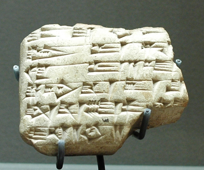 Tablet of Zimri-Lim, king of Mari, concerning the foundation of an ice-house in Terqa. Baked clay, ca. 1780 BC.(See Zimrilim, reign 1779 BC - 1757 BC.)